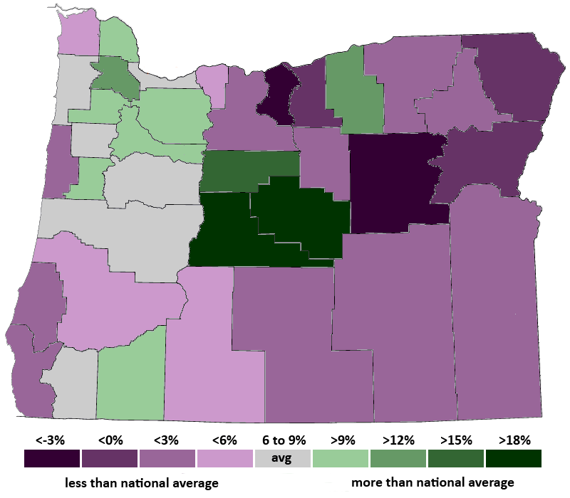 Oregon Population Growth by County, 2000-2007. Population growth in the green counties was higher than the national average, while growth in the purple counties was lower than the national average. Oregon's total population growth was 9.5%, compared with the national average of 7.7%. The fastest growing county was Deschutes at 39.4%. Leading the way in the Portland metro area was Washington County at 14.8%, followed by Clackamas at 10.0%, Yamhill at 9.5%, and Multnomah at 7.5%.